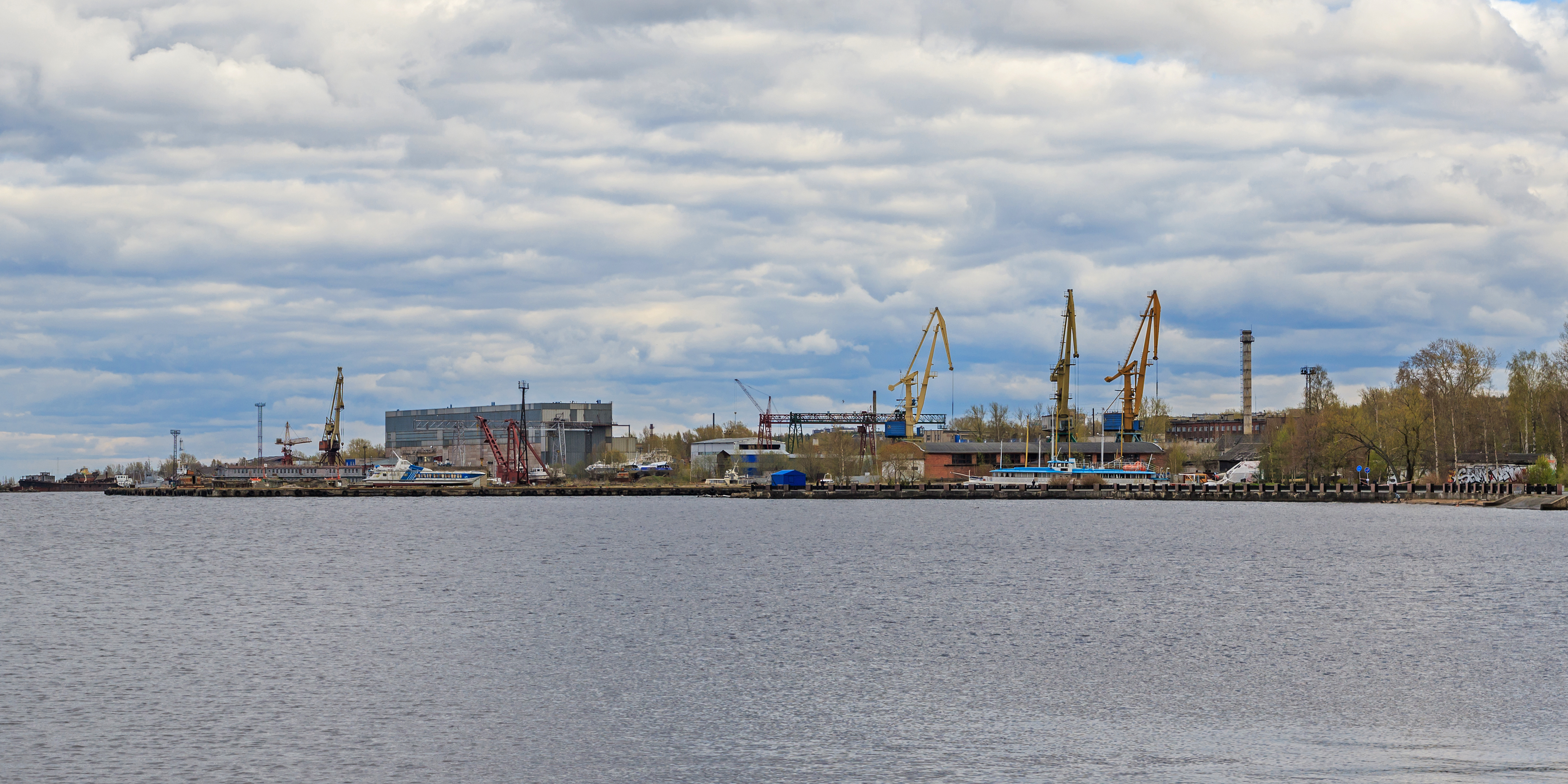 Remote view of Onego Shipyard in Petrozavodsk, Republic of Karelia (Russia).